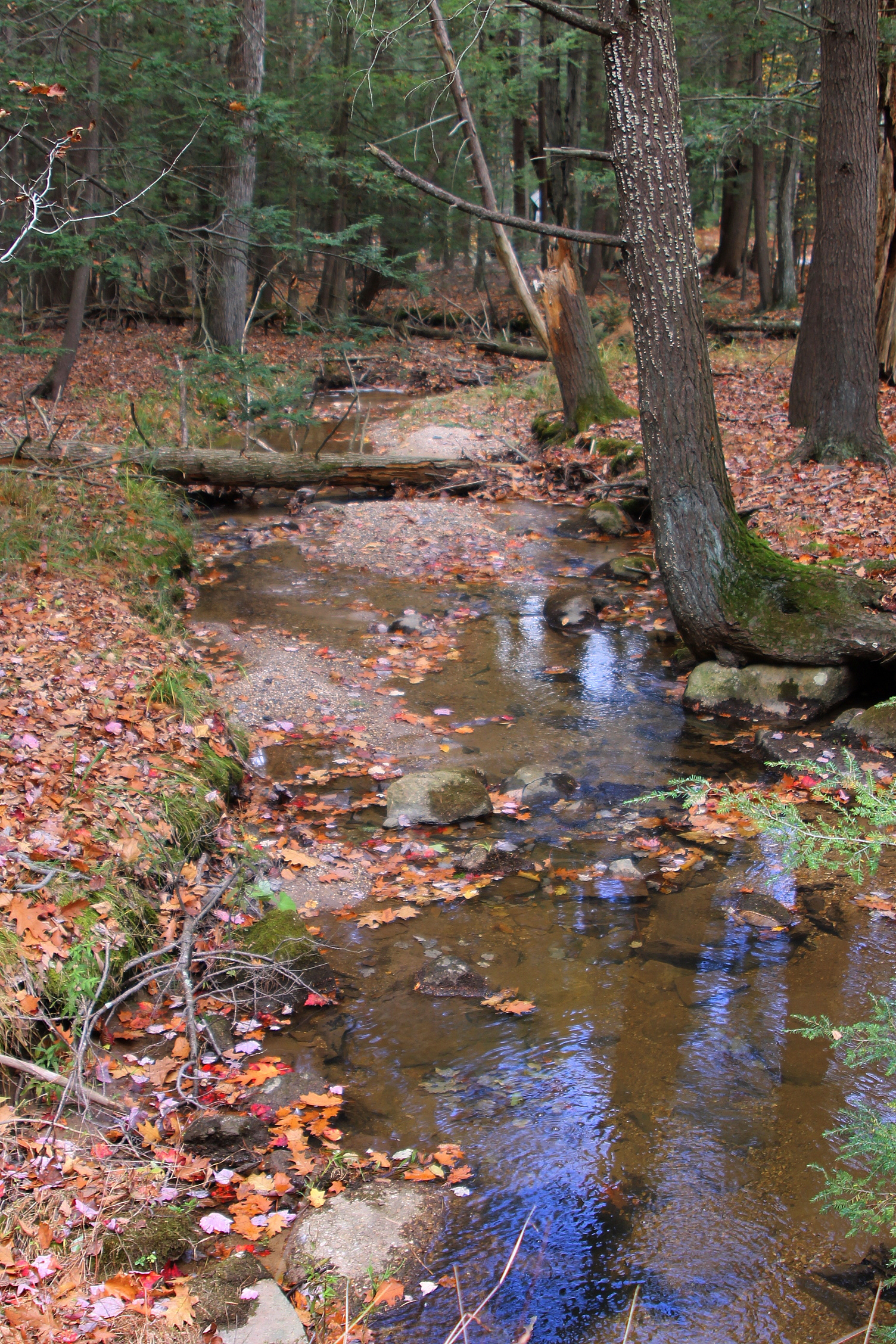 Little Crooked Run looking downstream in its lower reaches